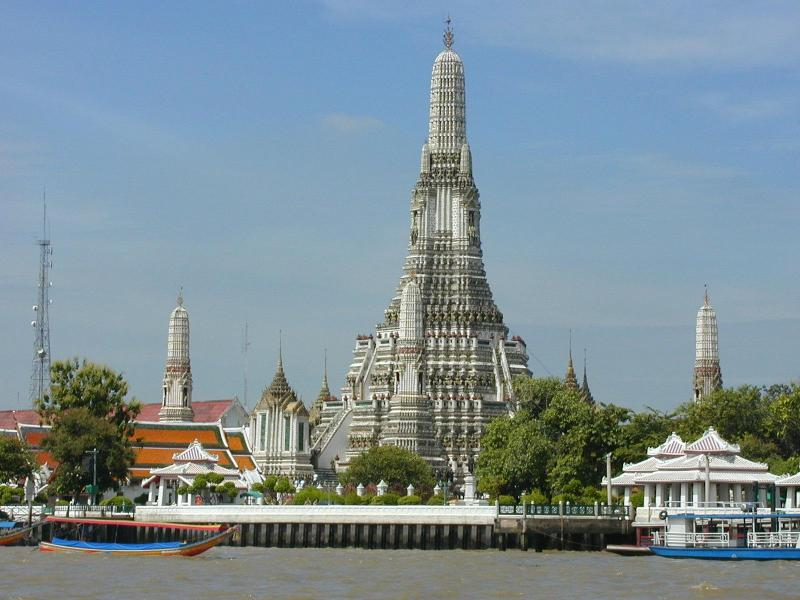 Wat Arun, Bangkok.